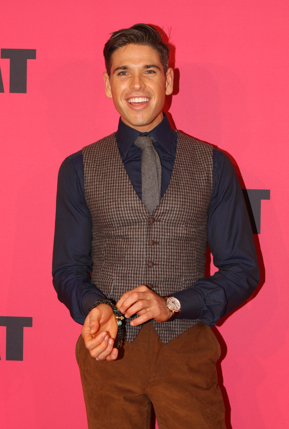 The Heat red carpet movie premiere in Sydney, Australia with Sandra Bullock - 2nd July 2013... Sandra Bullock, a good looking 48-year is in town to promote her new movie, The Heat. Early in the day she hopped a luxury boat on Sydney Harbour to enjoy our city. Event Cinemas in George Street says Bullock and Melissa McCarthy playing detectives in a cop comedy. Bullock plays successful, but highly highly strung FBI special agent Sarah Ashburn and is partnered with tough Boston cop Shannon Mullins (McCarthy). The girls are after a drug boss... of course. Early reviews and box office numbers demonstrate that Bullock's latest movie will be a thumbs up with fans and movie execs. The action-comedy grossed $US40 million ($43.7 million) - in second earnings place - in its opening weekend. Plot Outline: Uptight FBI Special Agent Sarah Ashburn (Sandra Bullock) and foul-mouthed Boston cop Shannon Mullins (Melissa McCarthy) couldn’t be more incompatible. But when they join forces to bring down a ruthless drug lord, they become the last thing anyone expected: buddies. From Paul Feig, director of “Bridesmaids.” Cast... Sandra Bullock as FBI Special Agent Sarah Ashburn Melissa McCarthy as Detective Shannon Mullins Dan Bakkedahl as DEA Agent Craig Demián Bichir as Hale Tom Wilson as Captain Woods Michael Rapaport as Jason Mullins Marlon Wayans as Levy Tony Hale as The John Taran Killam as Adam Nathan Corddry as Michael Mullins Kaitlin Olson as Tatiana Bill Burr as Mark Mullins Michael McDonald as Julian Lance Norris as Scruffy Bar Patron Jamie Denbo as Beth Jessica Chaffin as Gina Steve Bannos as Wayne Raw Leiba as Paint Factory Henchman Joey McIntyre as Peter Mullins Paul Feig as Doctor Websites The Heat 20th Century Fox Eva Rinaldi Photography